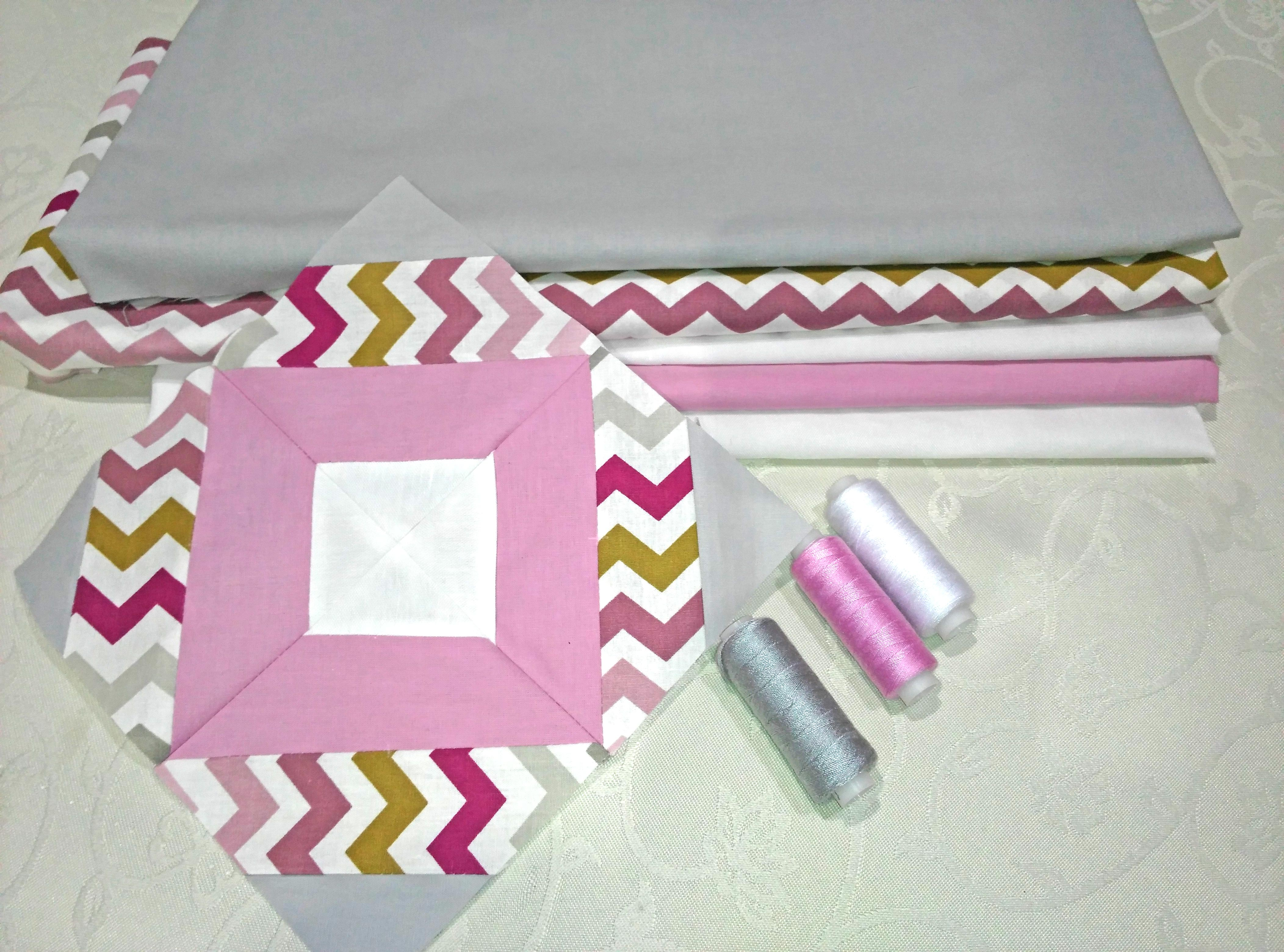 Quilt block shown in front of quilting fabrics and thread - originally taken for